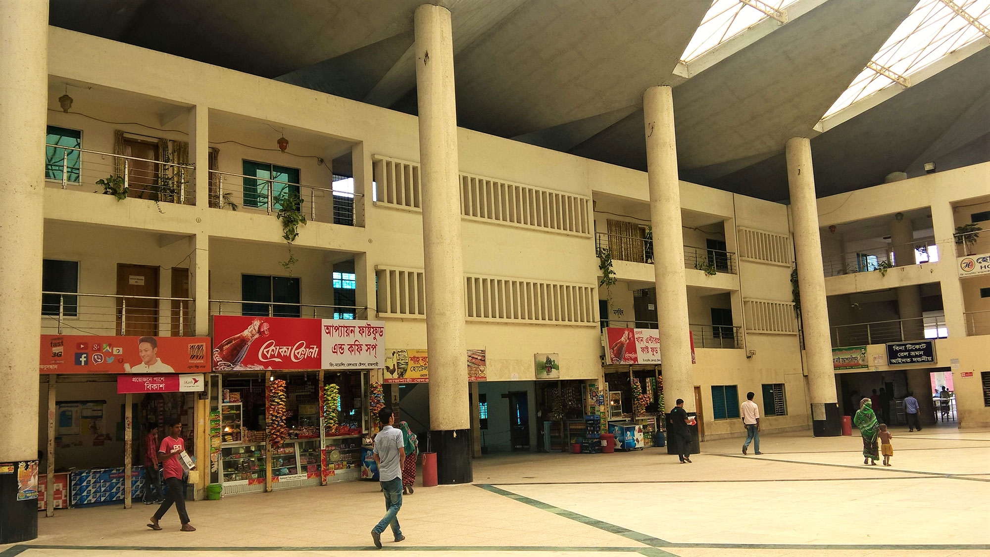 Rajshahi Railway Station is one of the modern structural building in bangladesh. It has total 5 platform. 3 storied building consists main platform, mosque and a residential hotel.